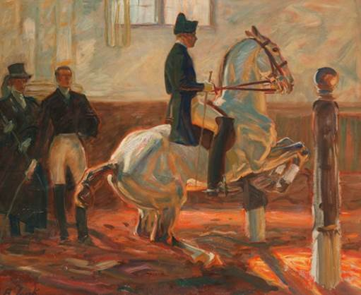 Jumping Course at the Riding Hall